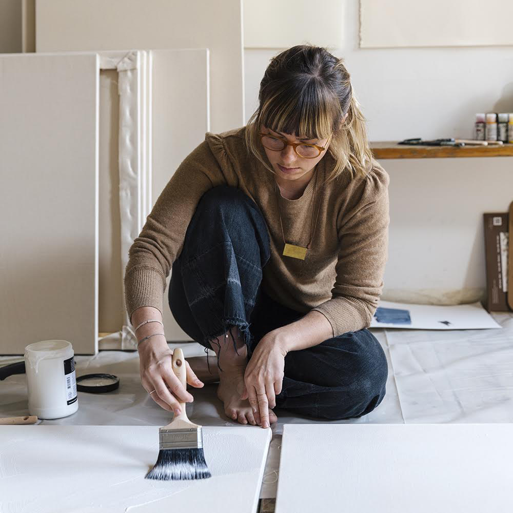 Picture of artist Heather Day painting in London. 2017.